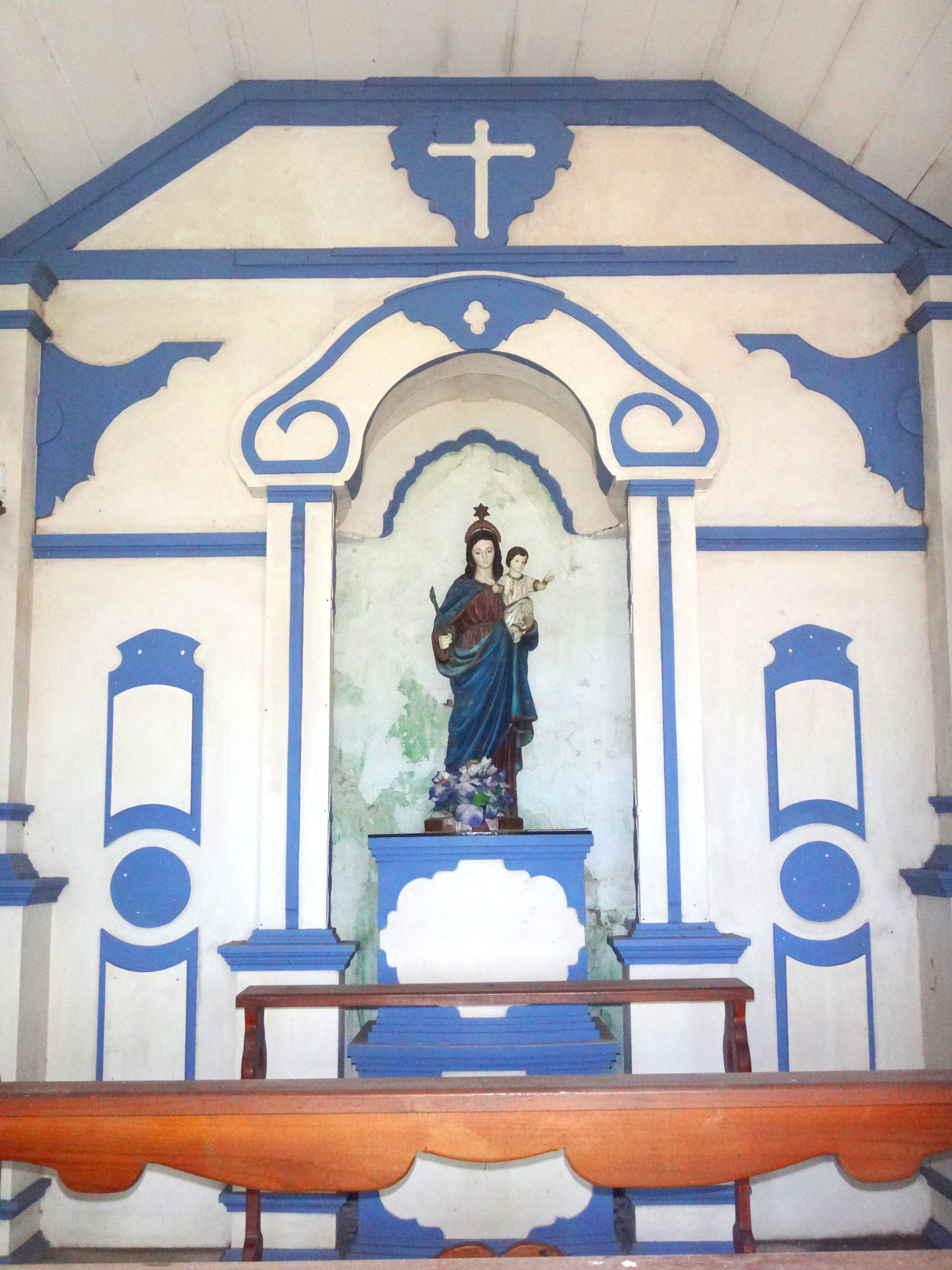 Retable inside Nossa Senhora da Guia Chapel on top of the Guia Hill (Monte da Guia) in Cabo Frio, Brazil